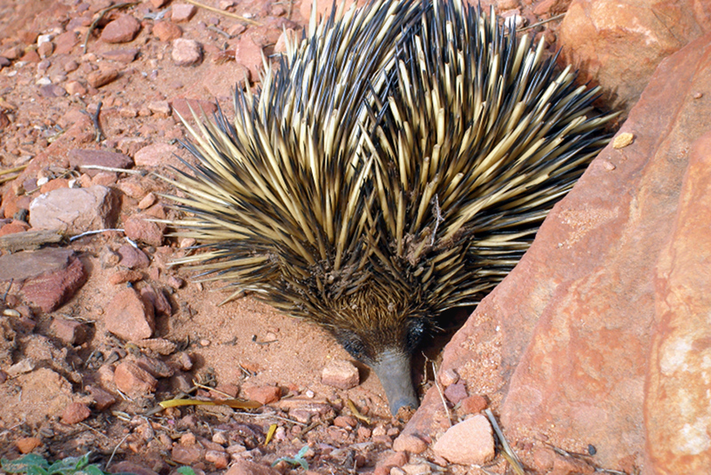 Kalbarri National Park, Western Australia, short-beaked echidna